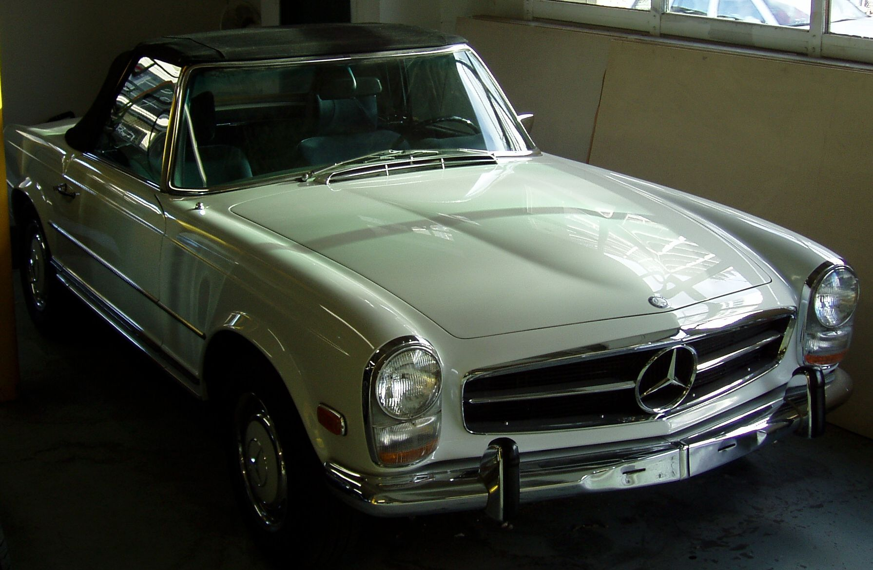 Parked 1968 Mercedes-Benz 280SL (W 113, Papyrus White, 717G)